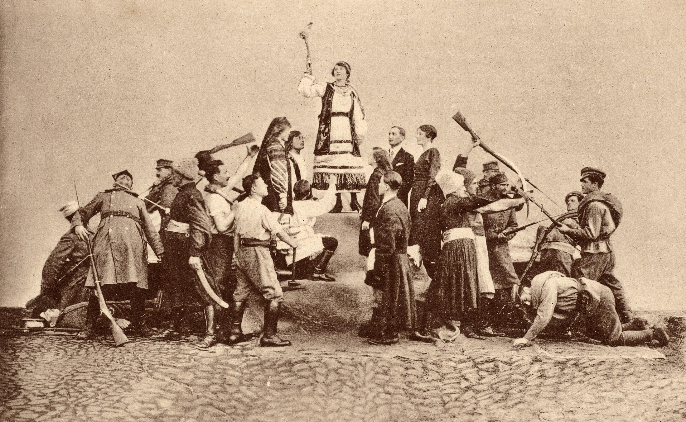 United Ukrainians fighting both Polish and Russian forces.